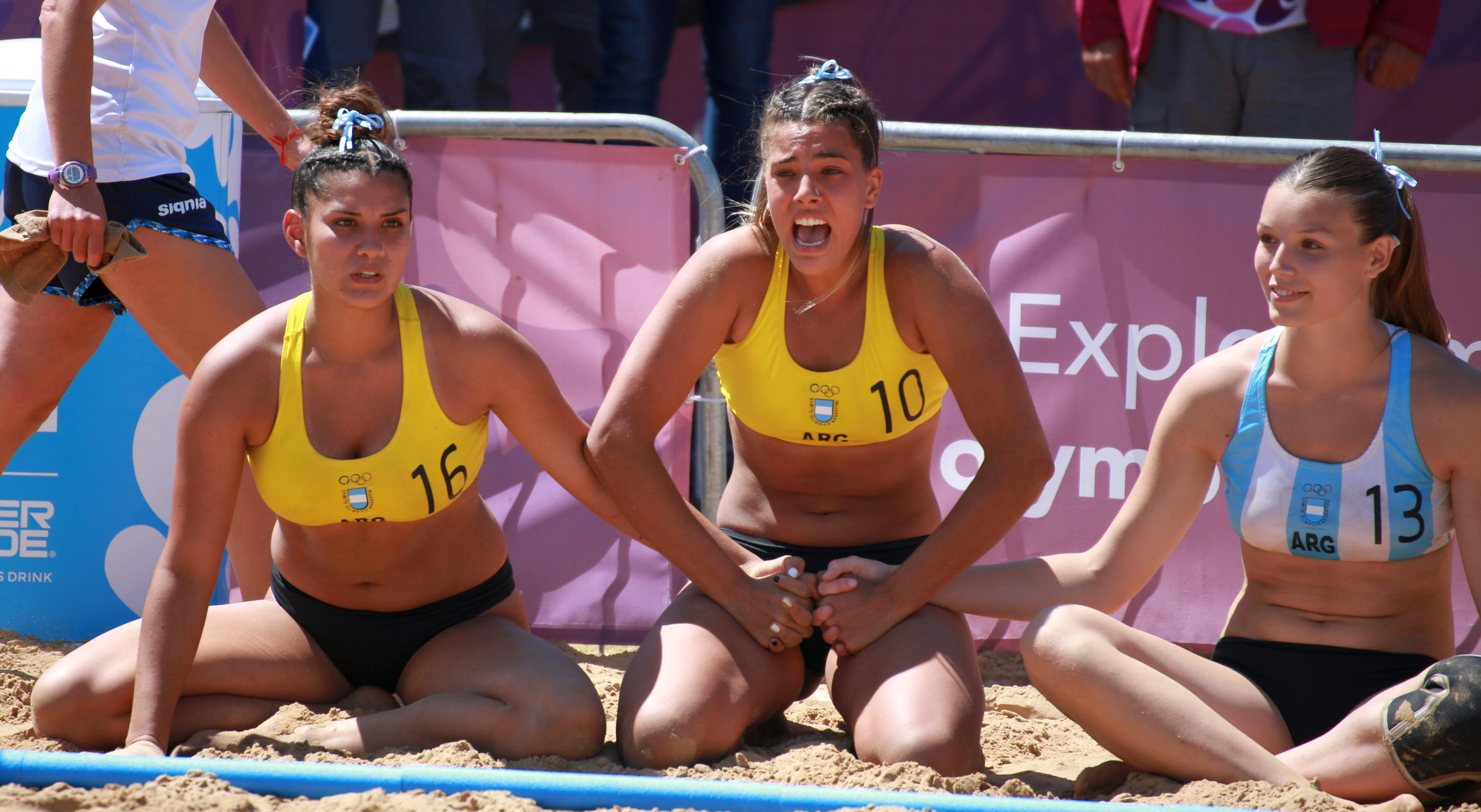 Beach handball at the 2018 Summer Youth Olympics in Buenos Aires at 13 October 2018 – Girls Semifinal – Hungary-Argentina 1:2